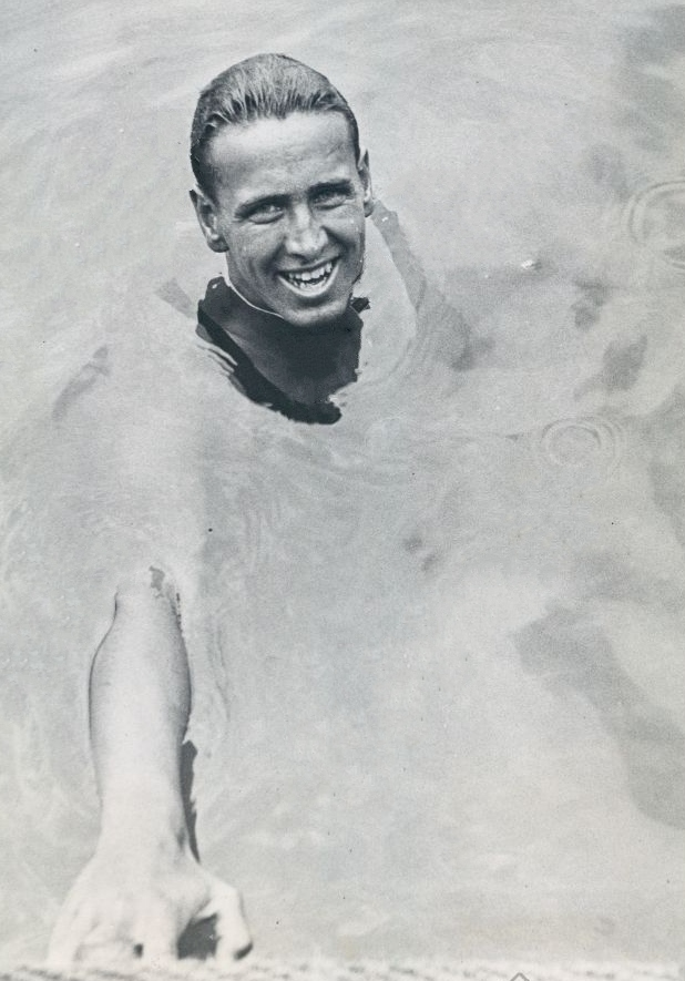 1934 AAU Men Swimming World Fair Lagoon Art Highland Lake Shore AC Press Photo